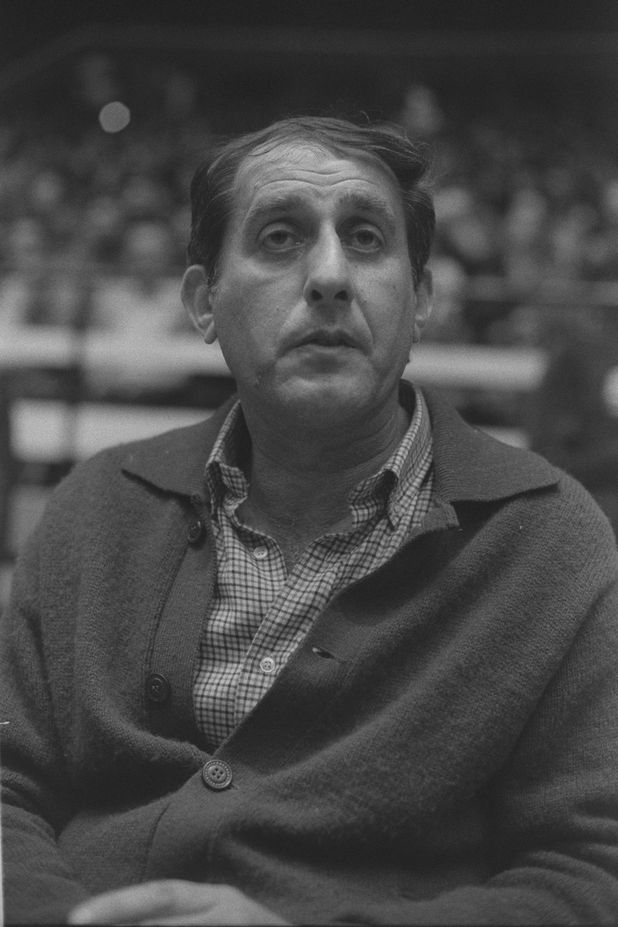 Maccabi Tel Aviv coach Ralph Klein. מאמן מכבי תל אביב, ראלף קליין Photo: Yaakov Saar (1951–) Alternative names SA'AR YA'ACOV; Jacob Saar; Saʻar, YaʻaḳovDescriptionIsraeli photographerDate of birth 1951 Authority control : Q28751896 VIAF: 298161188 NLI: 001394176 creator QS:P170,Q28751896 , 03/10/1980